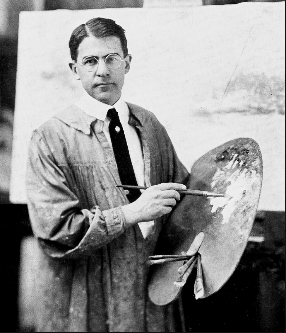 Photo of illustrator Frank Earle Schoonover, before 1923.